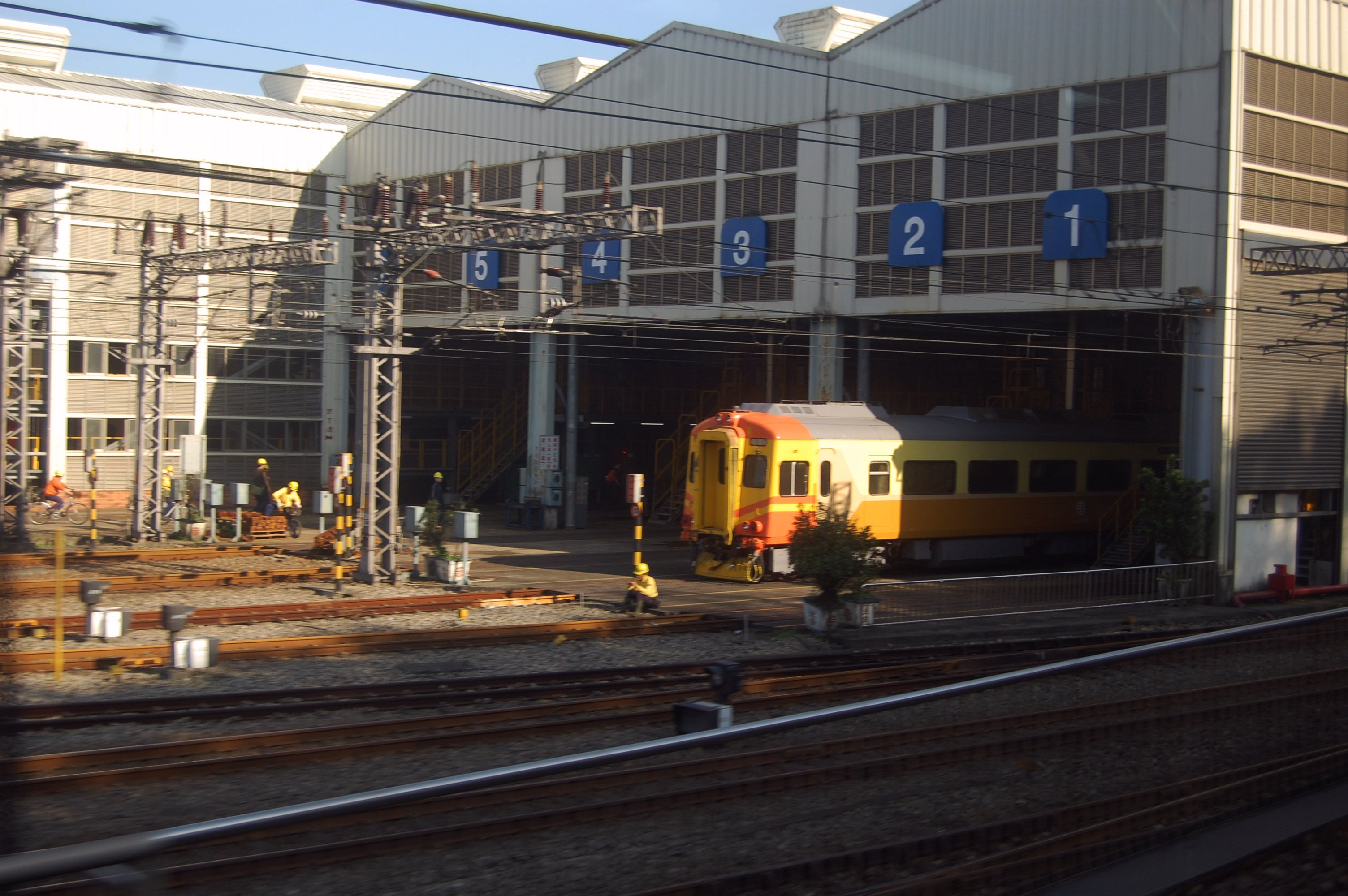 Underground urban trackage and run-through services in Taiwan make efficient use of assets and available track capacity. An Italian Società Costruzioni Industriali Milano (SOCIMI) EMU300 trainset is being prepared at Qidu Marshalling Yard.